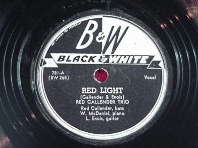 Red Callender Trio